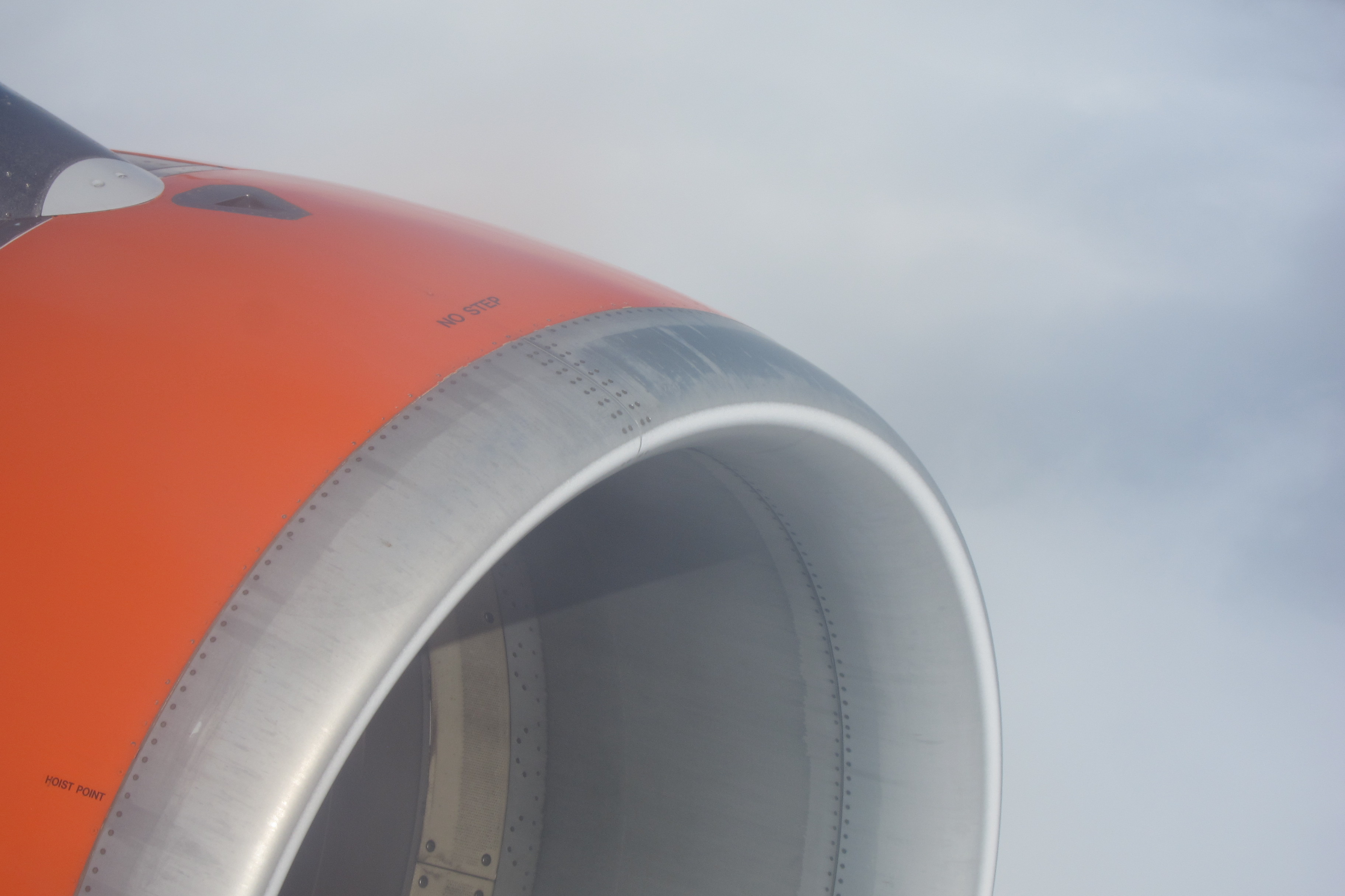 Atmospheric icing on a CFM56 engine during a commercial flight. A thin ice layer has accumulated on the inlet leading edge of the turbofan duct as the aircraft flew through a cloud layer in icing conditions.